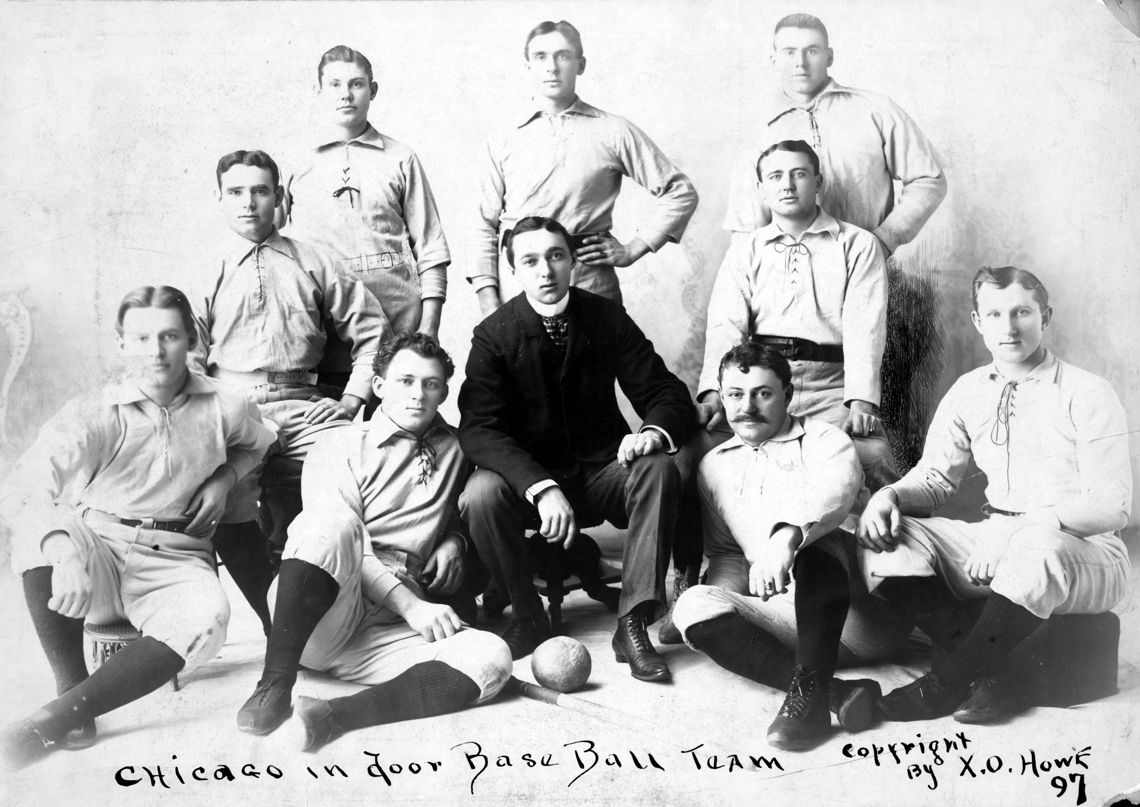 This is believed to be, according to baseball historian Paul Dickson, the first photo of a "softball" (indoor baseball) team.